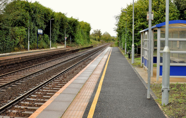 Trooperslane station, Carrickfergus (2)